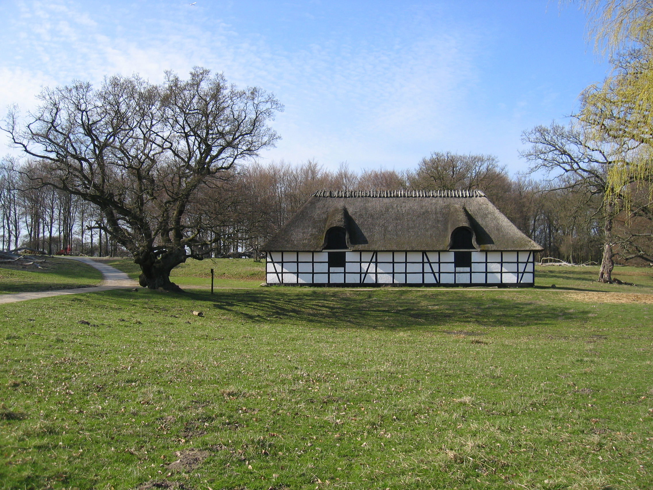 The englishman oak on Eremitage plain, Jægersborg Deer Park, Denmark.